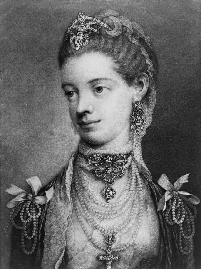 Charlotte of Mecklenburg-Strelitz (1744-1818) by Thomas Frye (1710-1762). Mezzotint.